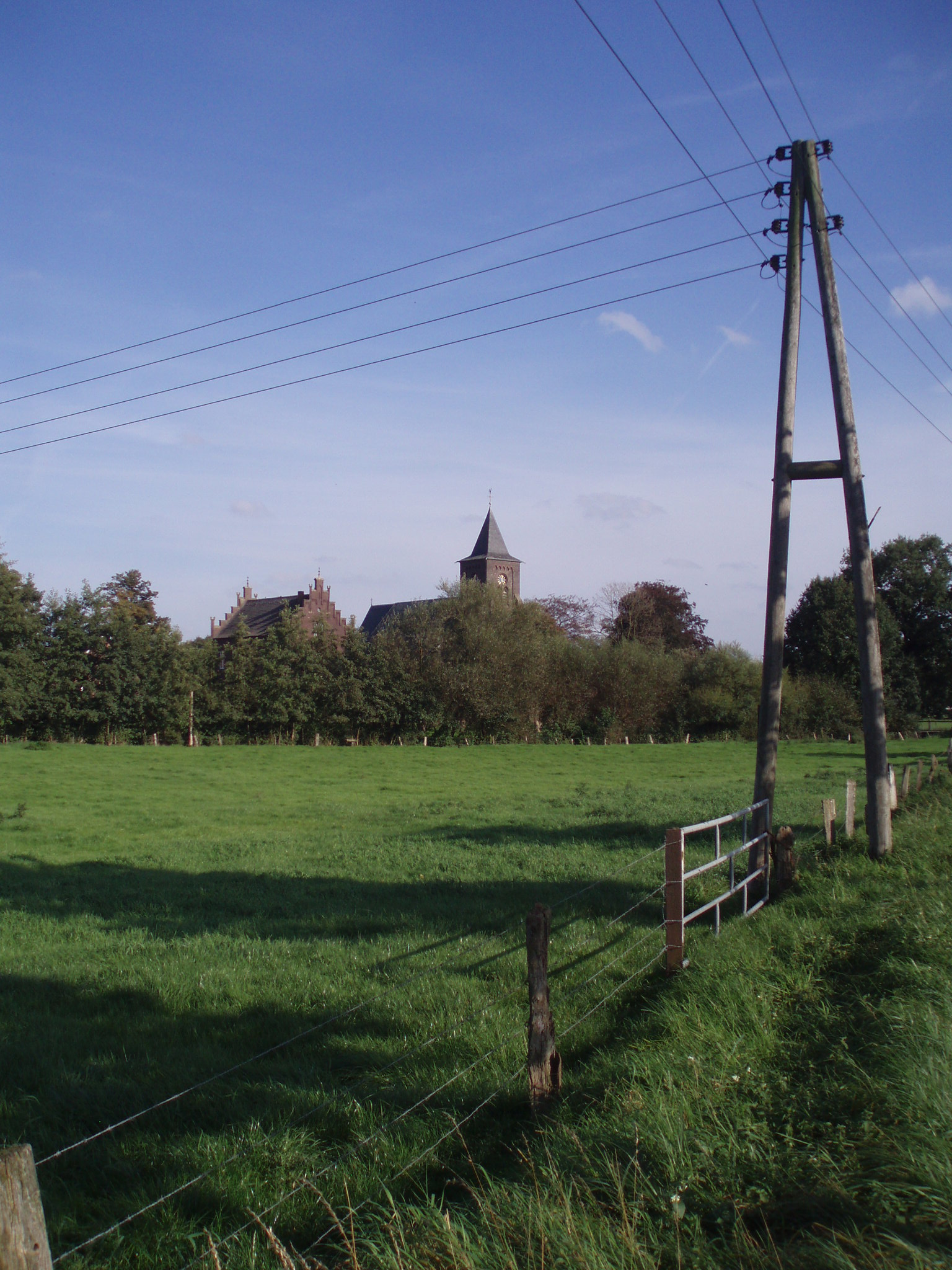 Sint Peter Church, Hommersum (Germany)